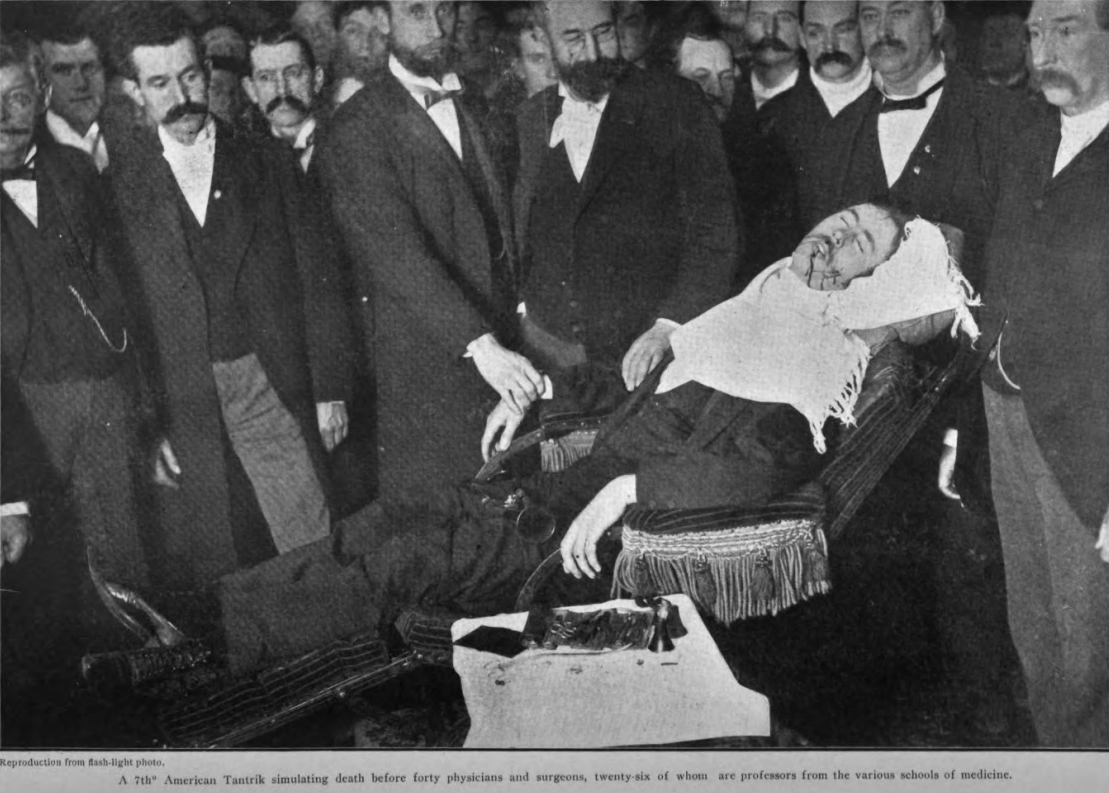 Photograph of American yogi Pierre Arnold Bernard "simulating death" before forty physicians and surgeons.